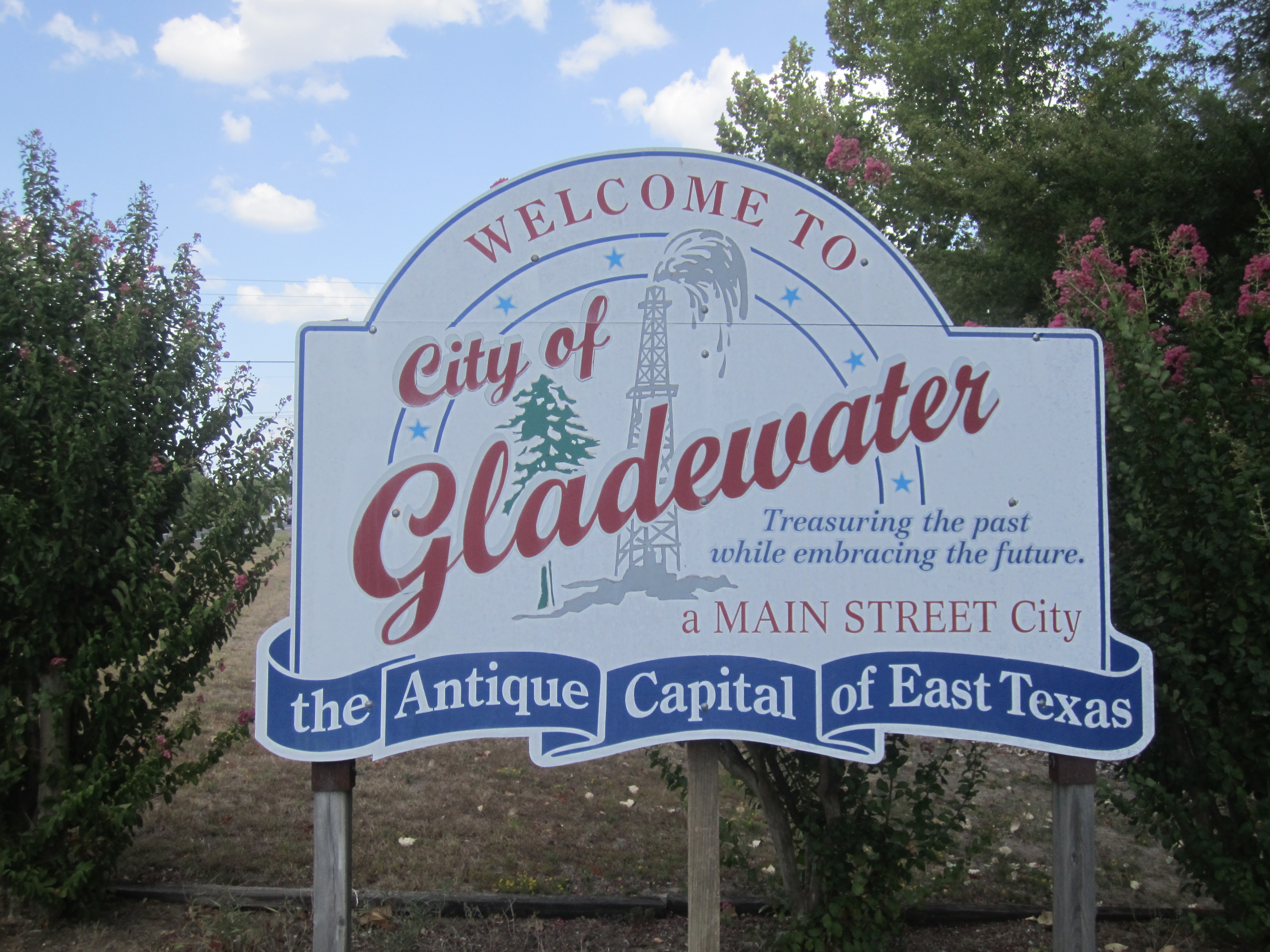 I took photo with Canon camera of Gladwater, TX, welcome sign.